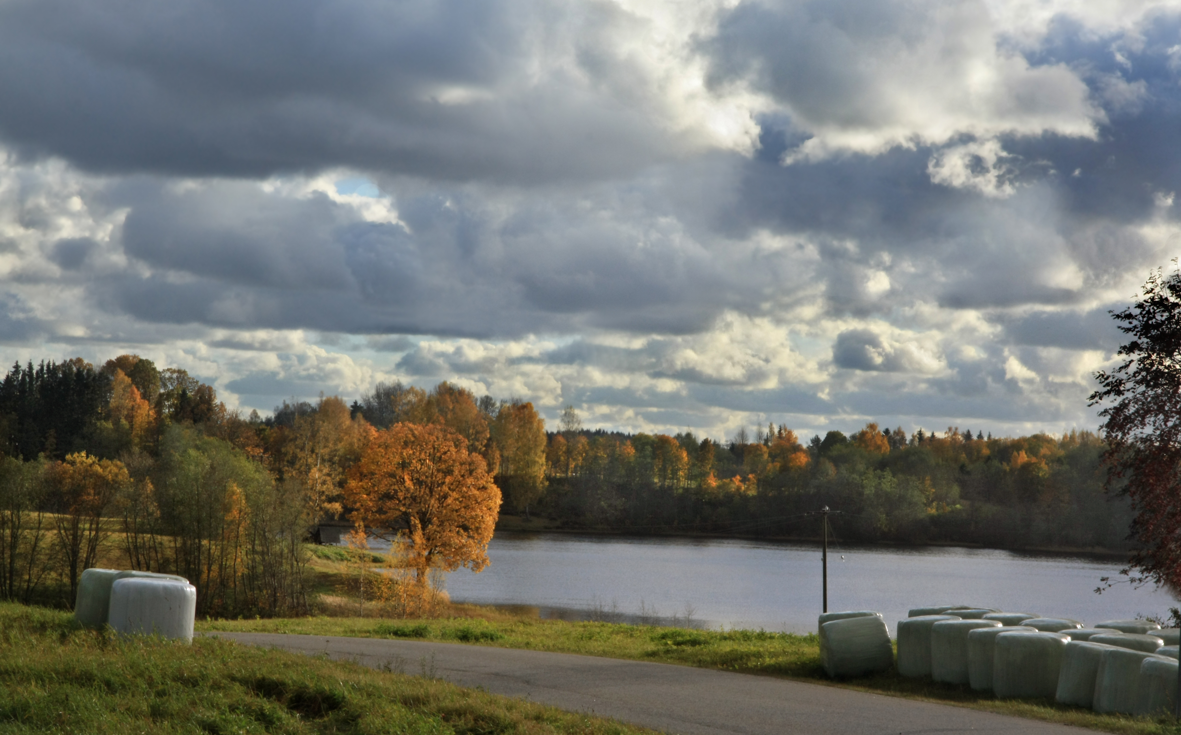 Lake Plaani Külajärv in southern Estonia